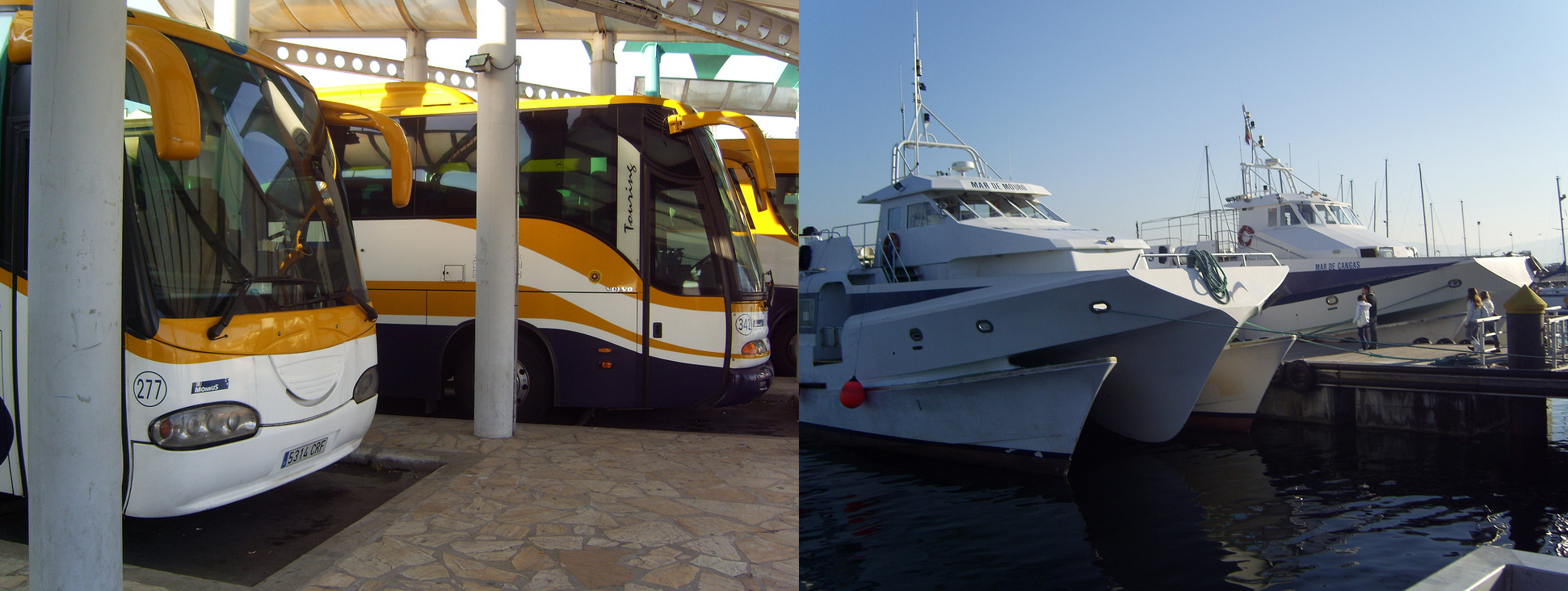 Bus station and ferry terminal in Cangas (Galicia, Spain)